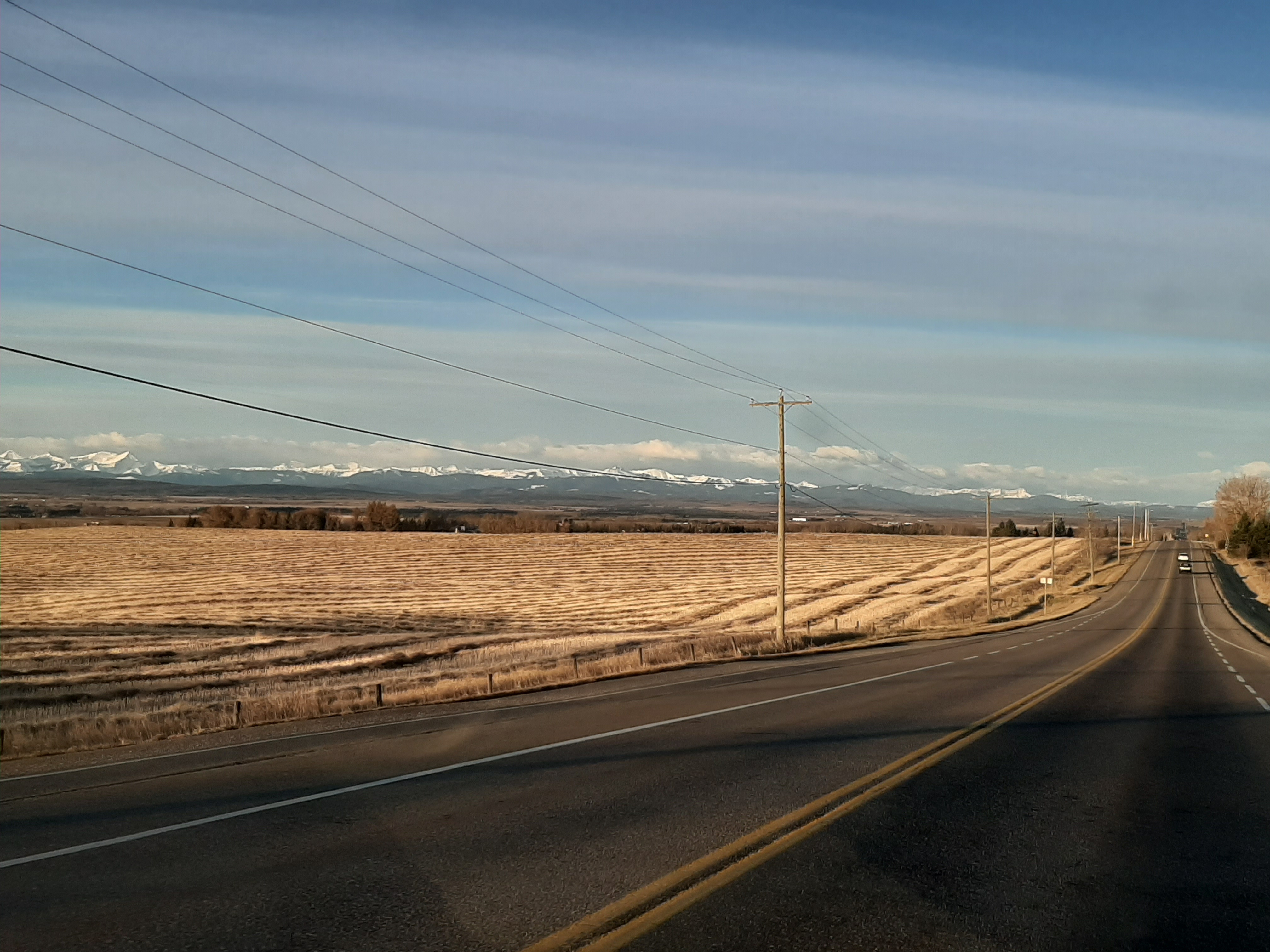 Looking west on Springbank Road towards the Rocky Mountains leaving Calgary, Alberta